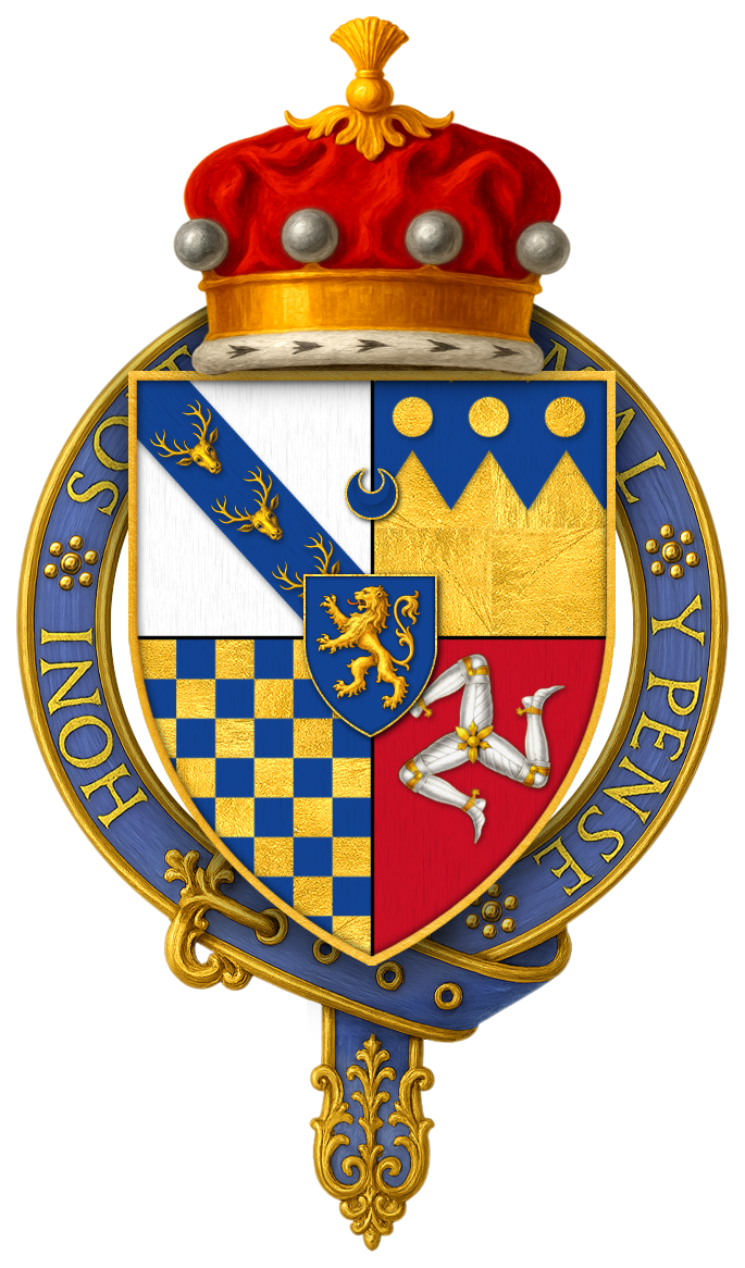 Coat of arms of Sir Edward Stanley, 1st Baron Monteagle, KG Lord Monteagle's stall plate remains affixed at St. George's Chapel. The arms are, quarterly: 1, argent on a fess azure three stag's heads cabossed or (for Stanley); 2, or on a chief indented azure, three bezants of the field (for Lathom); 3, chequy or and azure (for Warenne); 4, gules three legs armoured argent, embellished or, flexed in triangle (for the Isle of Man); on an escutcheon of pretence, Azure, a lion rampant or (? for Vaughan of Tretower, Brecknockshire, his wife's family ?) Per Fox-Davies, Arthur Charles, Complete Guide to Heraldry, 1909, "The arms on the escutcheon of pretence .... seem difficult to account for unless they are a coat for Rivers or some other territorial lordship inherited from the Wydeville family. The full identification of the quarterings borne by Anthony, Lord Rivers, would probably help in determining the point". See